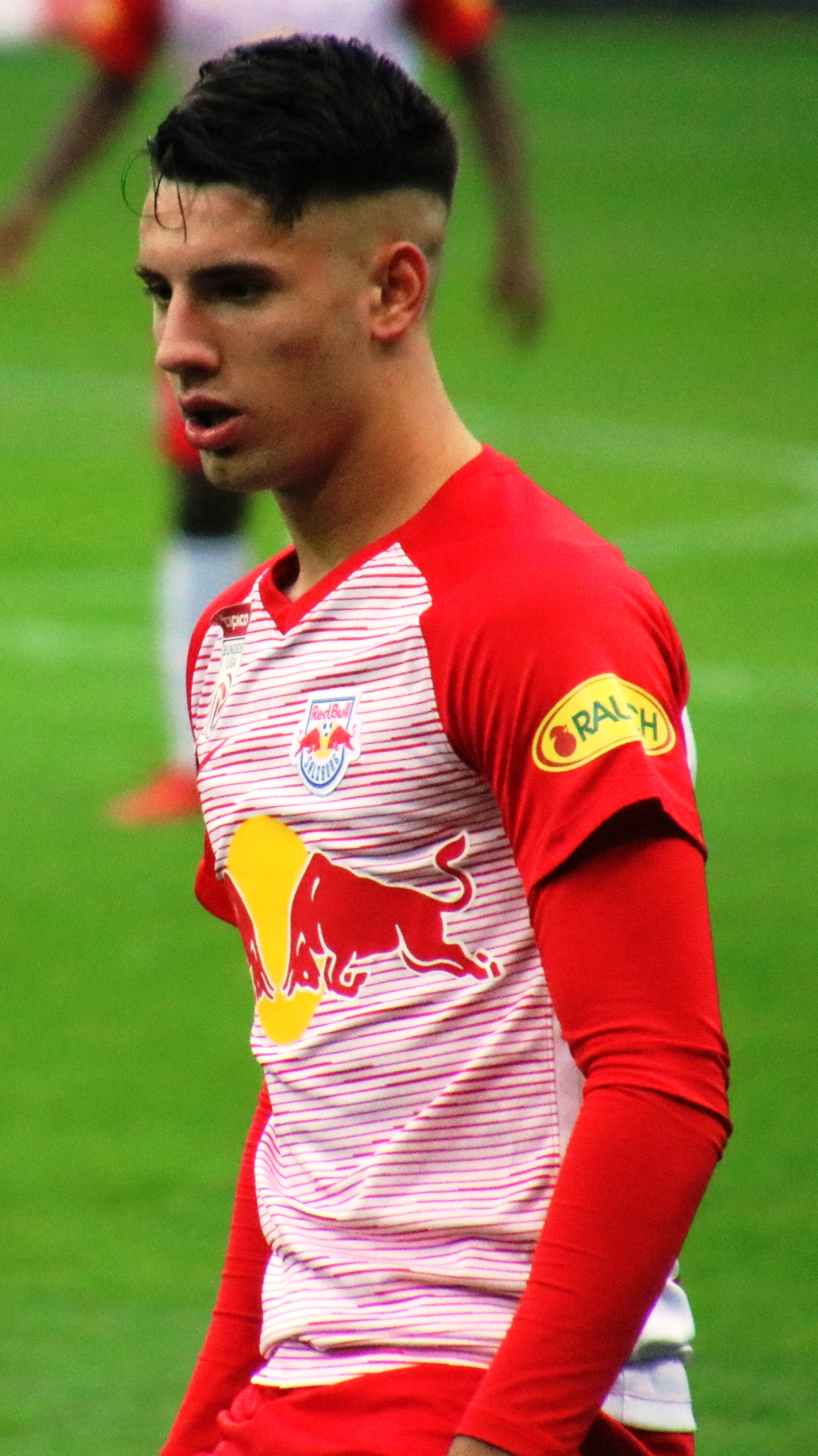 Austrian Bundesliga league match